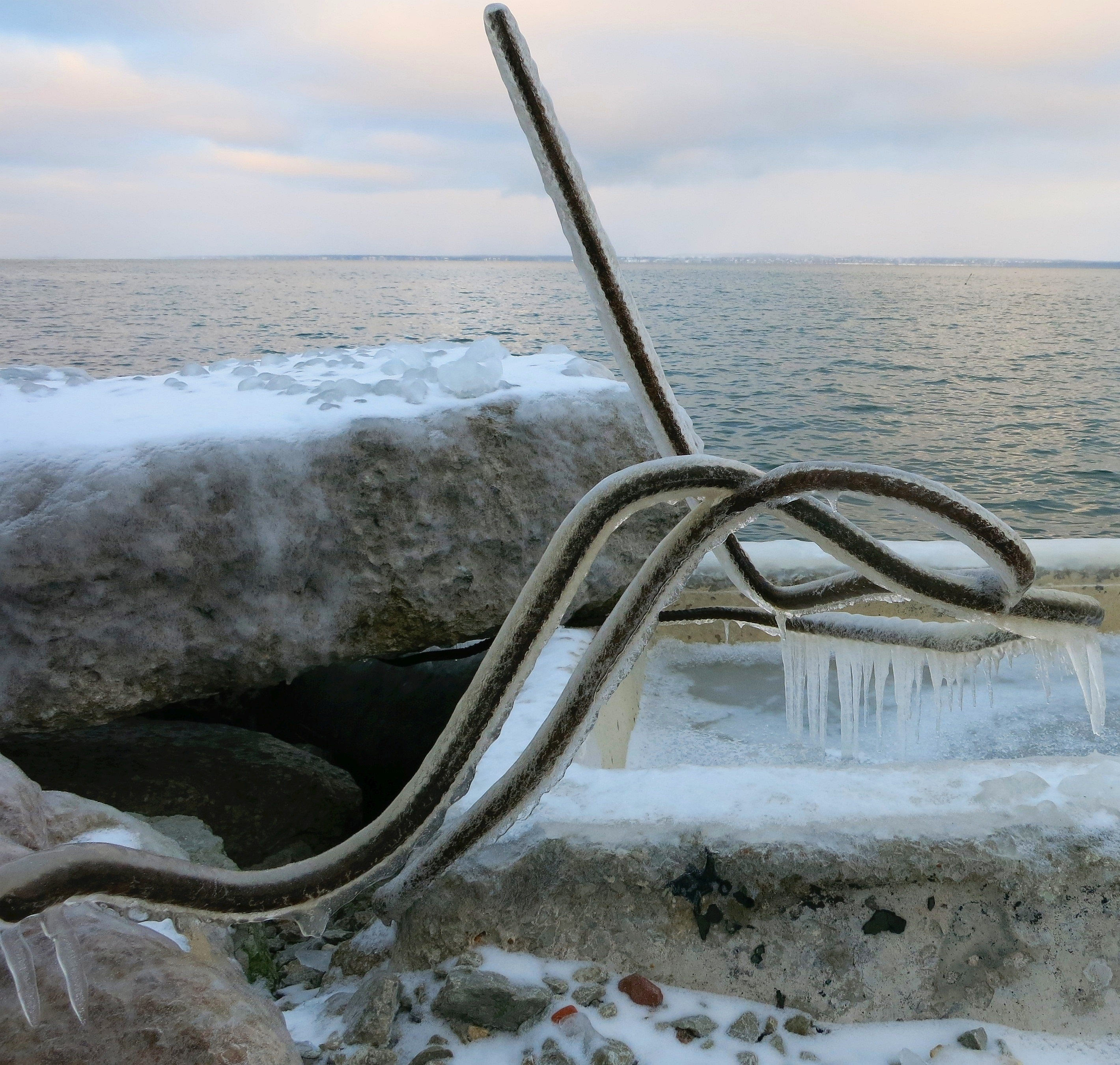 View from Tallinn Seaplane Harbour to east, over Tallinn Bay (Estonia)